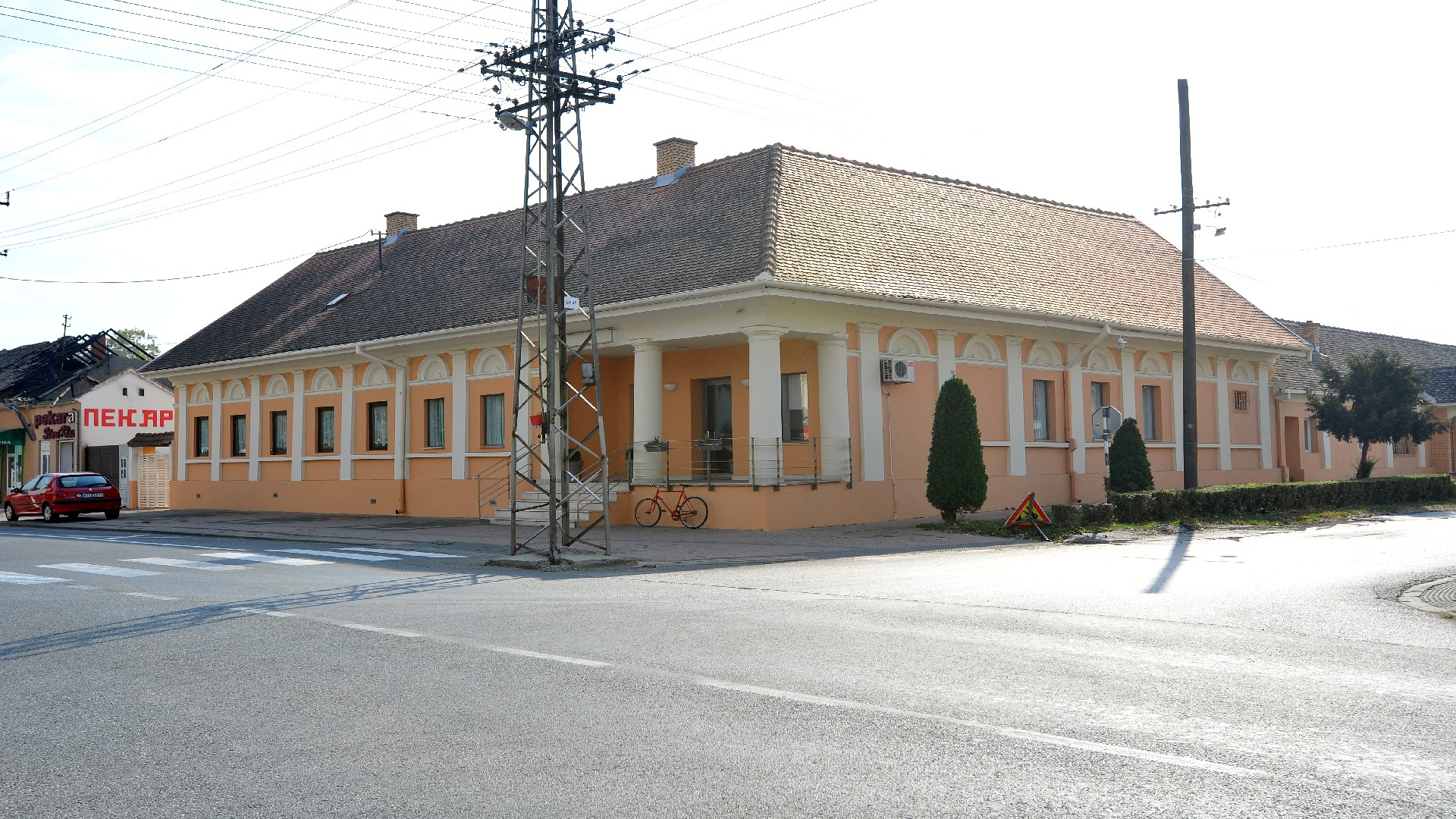 Street view of house of Ilija Atanacković in Šimanovci, Svetosavska street